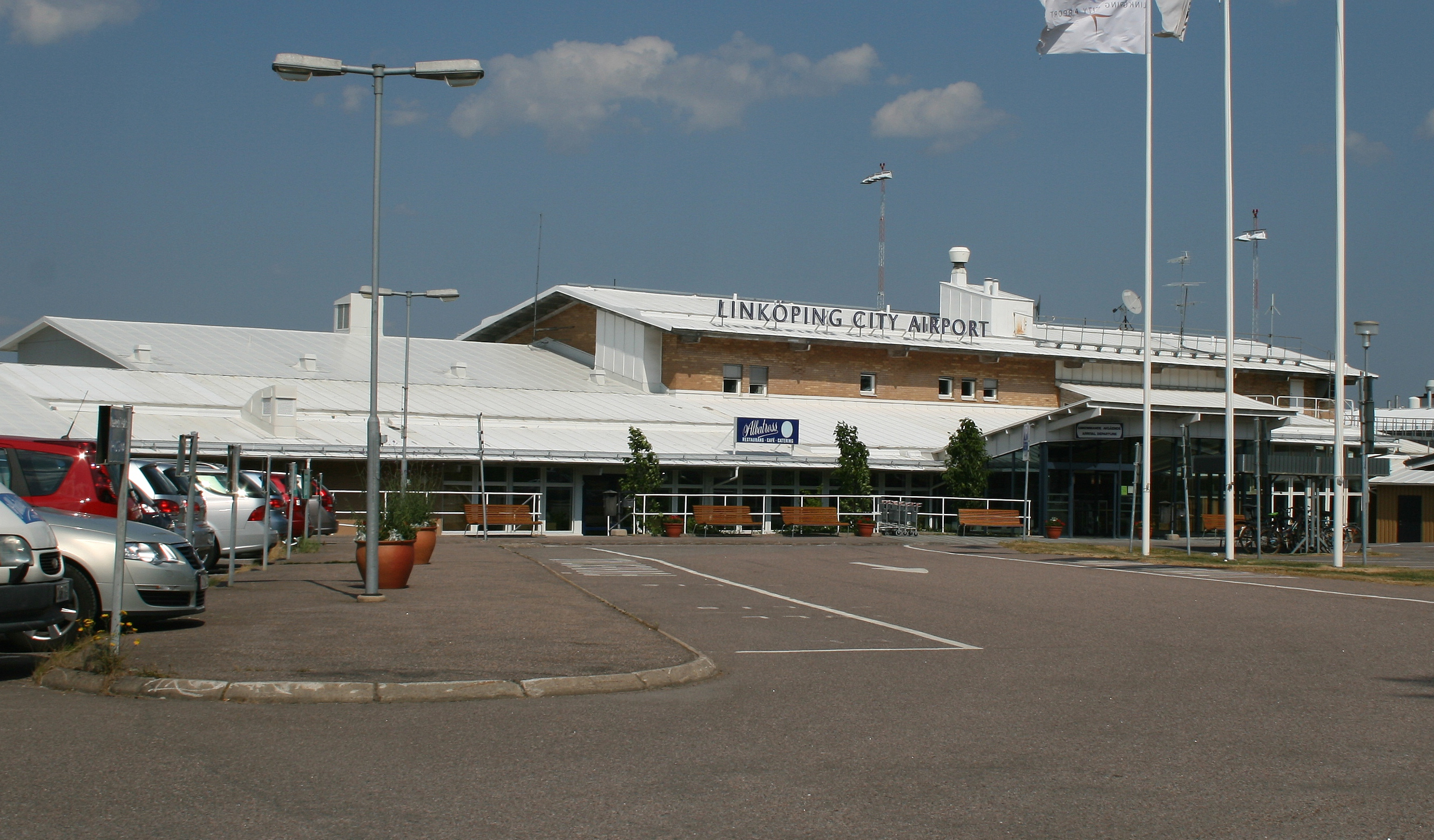 The terminal building at Linköping City Airport